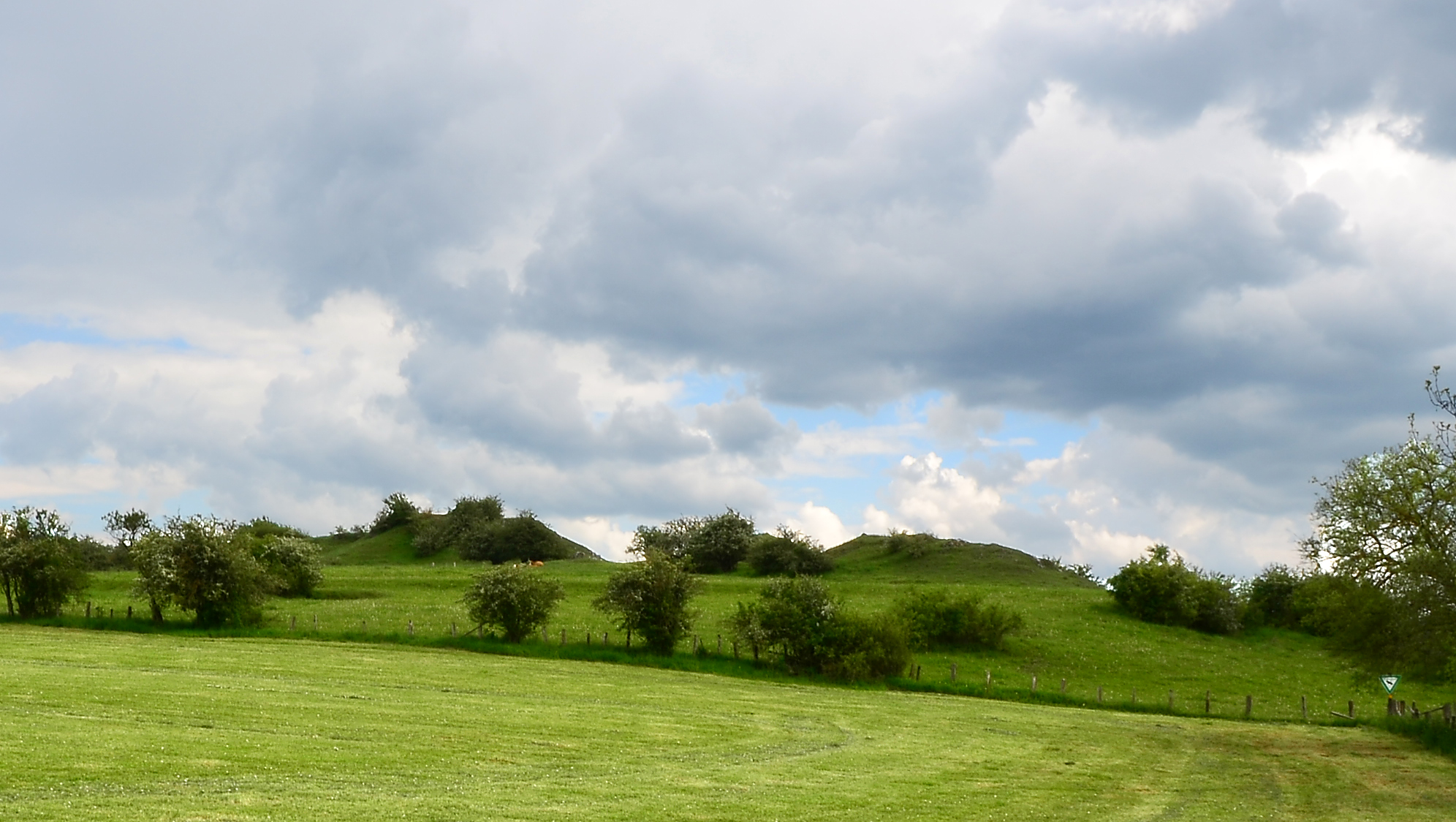 Nature reserve Weberstein (2) Key number: HSK-542, Brilon, North Rhine-Westphalia, Germany.